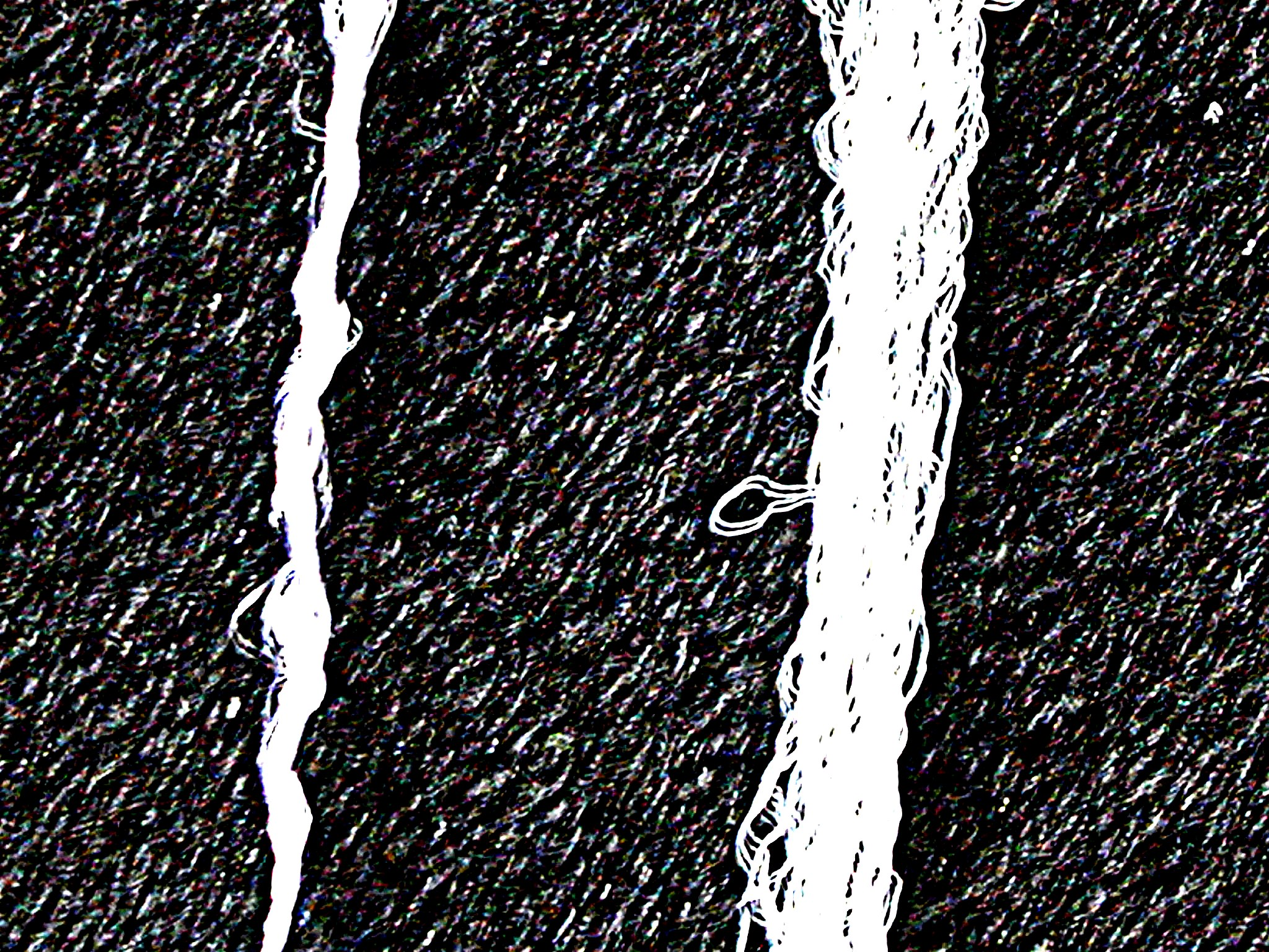 Flat and texturized yarn